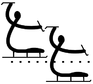 Ice sledge speed racing